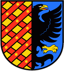 Municipal coat of arms of Prostějov town, Czech Republic.